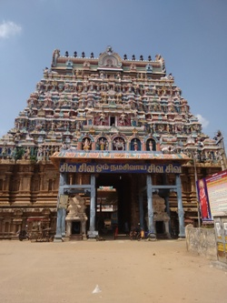 Tirubuvanam Kampahareswarar Temple திருபுவனம் கம்பகரேஸ்வரர் கோயில்